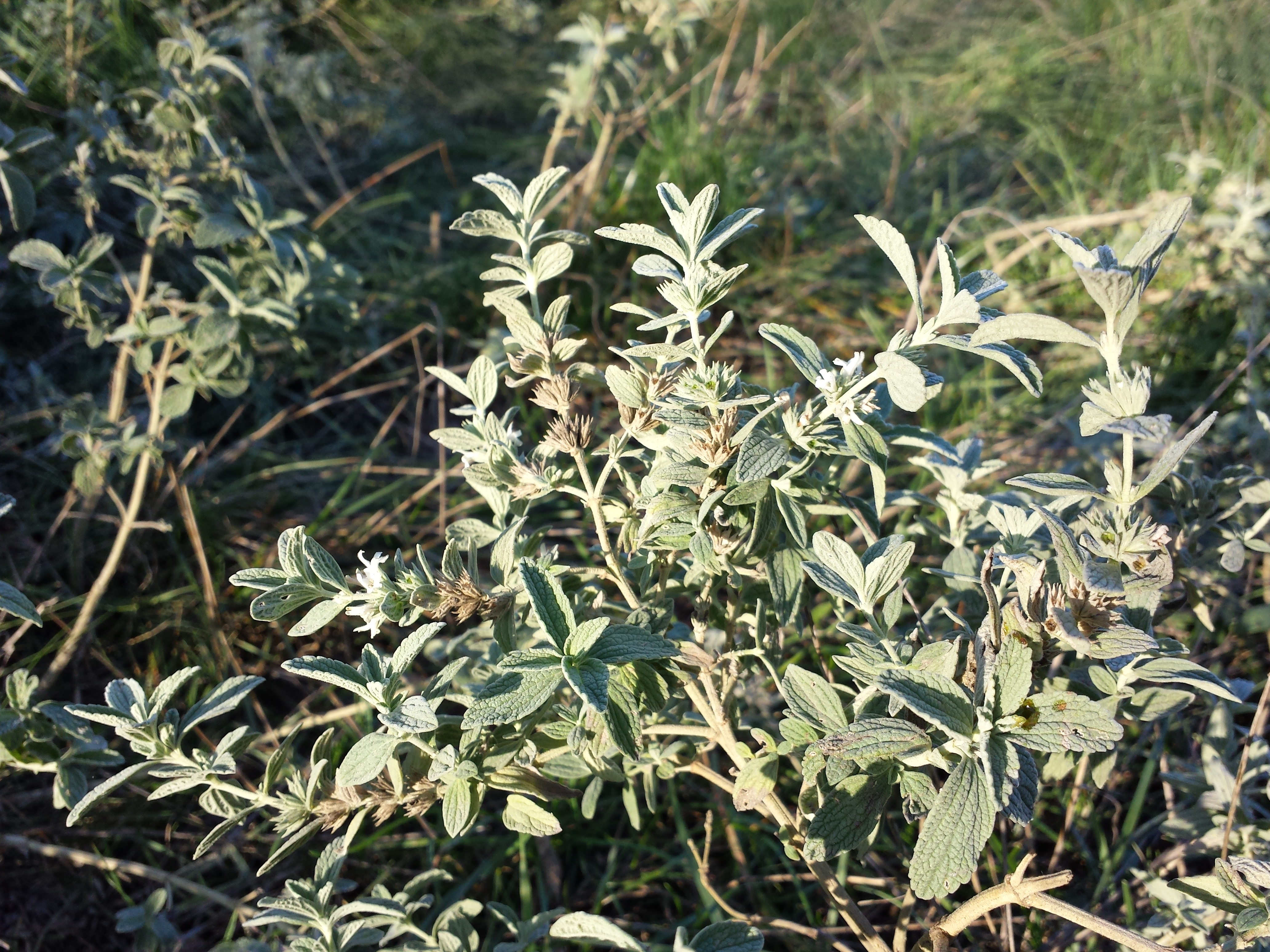 Habitus Taxonym: Marrubium peregrinum ss Fischer et al. EfÖLS 2008 ISBN 978-3-85474-187-9 Location: near Schönfeld im Marchfeld, district Gänserndorf, Lower Austria - ca. 145 m a.s.l. Habitat: way within wood